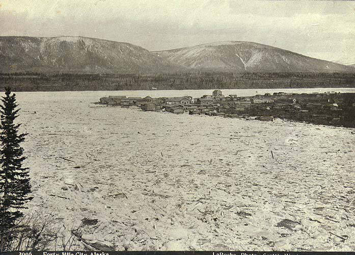 Caption on image: "Forty Mile City, Alaska" "Forty Mile City, Alaska. In a recent report on the Yukon gold region, it says in relation to the Forty Mile gold district, that in the latter part of 1887, Franklin Gulch was struck, and $4,000 was an estimate of the amount of gold produced in the first year. Since then it has been a constant payer. The character of the gold discovered is of the nugget order and pieces to the value of $5.00 are frequently found. Forty Mile River joins the main river from the west. As far up as the international boundry line, about twenty-three miles, its course is southwest; thence it takes a more southerly direction. It is 100 to 150 yards wide at the mouth, and the current is generally strong with many small rapids." (Frank La Roche, En Route to the Klondike, 1898) Subjects (LCTGM): Cities & towns--Alaska; Rivers--Alaska; Ice--Alaska; Mountains--Alaska Subjects (LCSH): Fortymile City (Alaska)